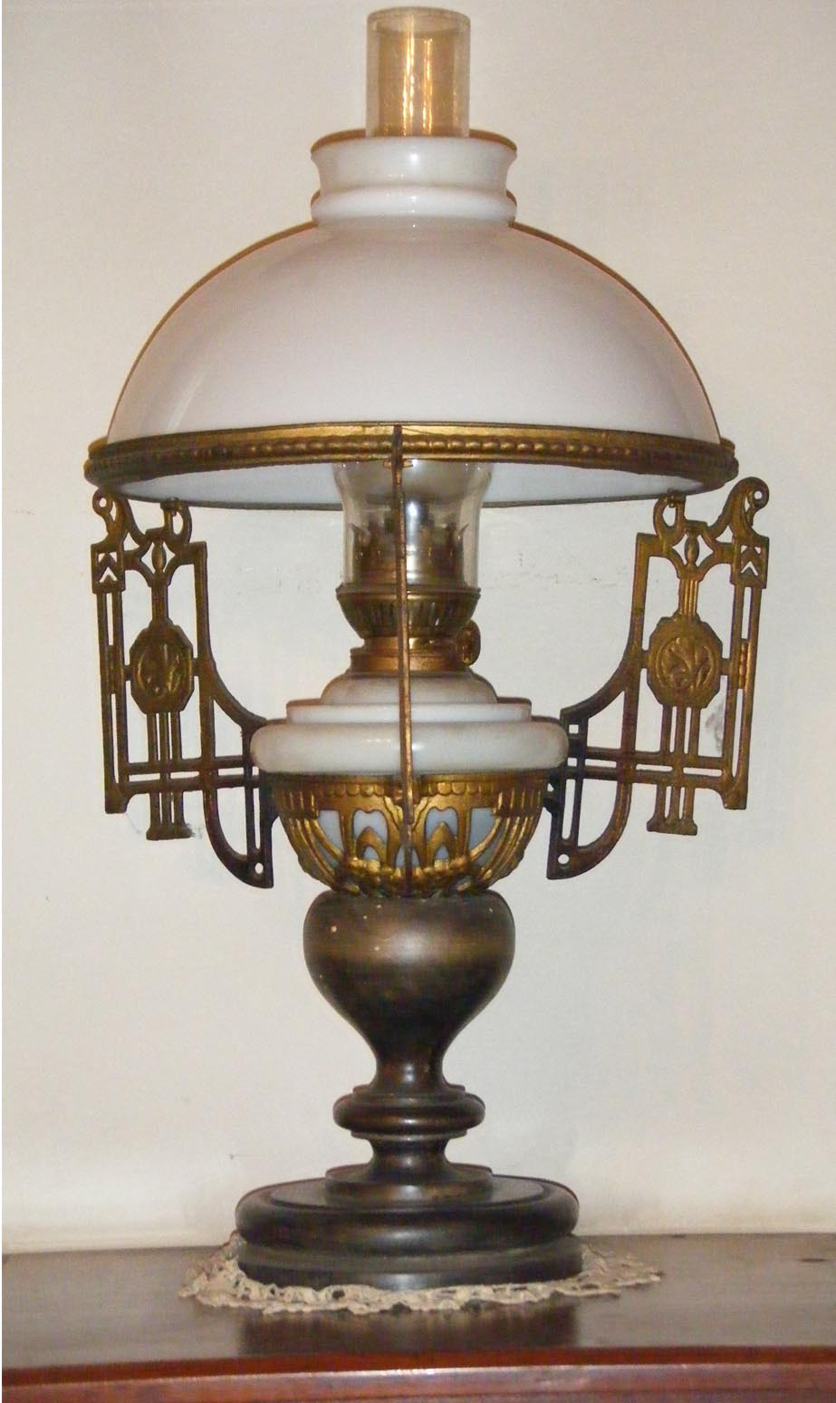 Lamp (petrol)